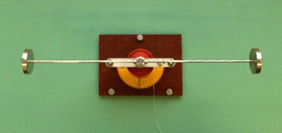 A torsion pendulum